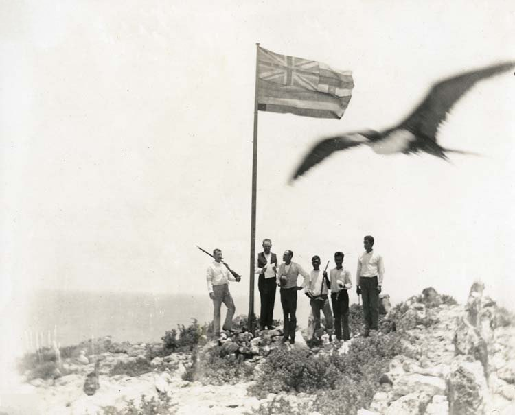 Ceremony to annex Mokumanamana (Necker Island) for the Provisional Government of Hawaii. From left to right: Gregory, Freeman, three sailors. This ceremony took place atop what was later called "Annexation Hill" the highest point on Mokumanamana. Photo by Ben H. Norton, Chief Engineer of the Iwalani.